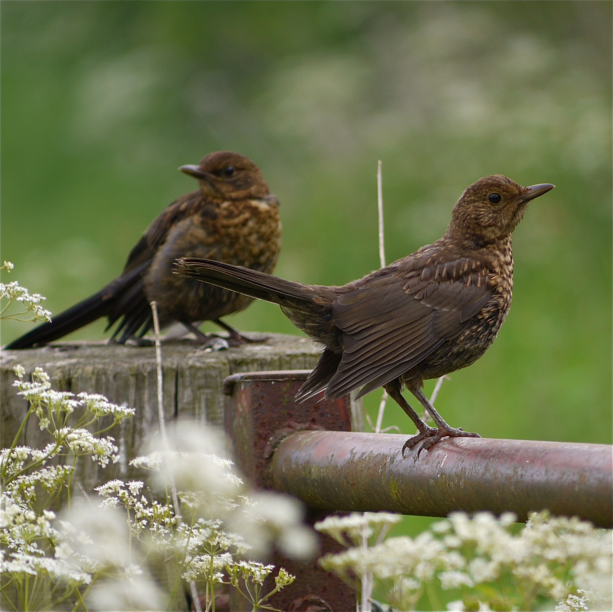 Two juvenile Common Blackbirds.